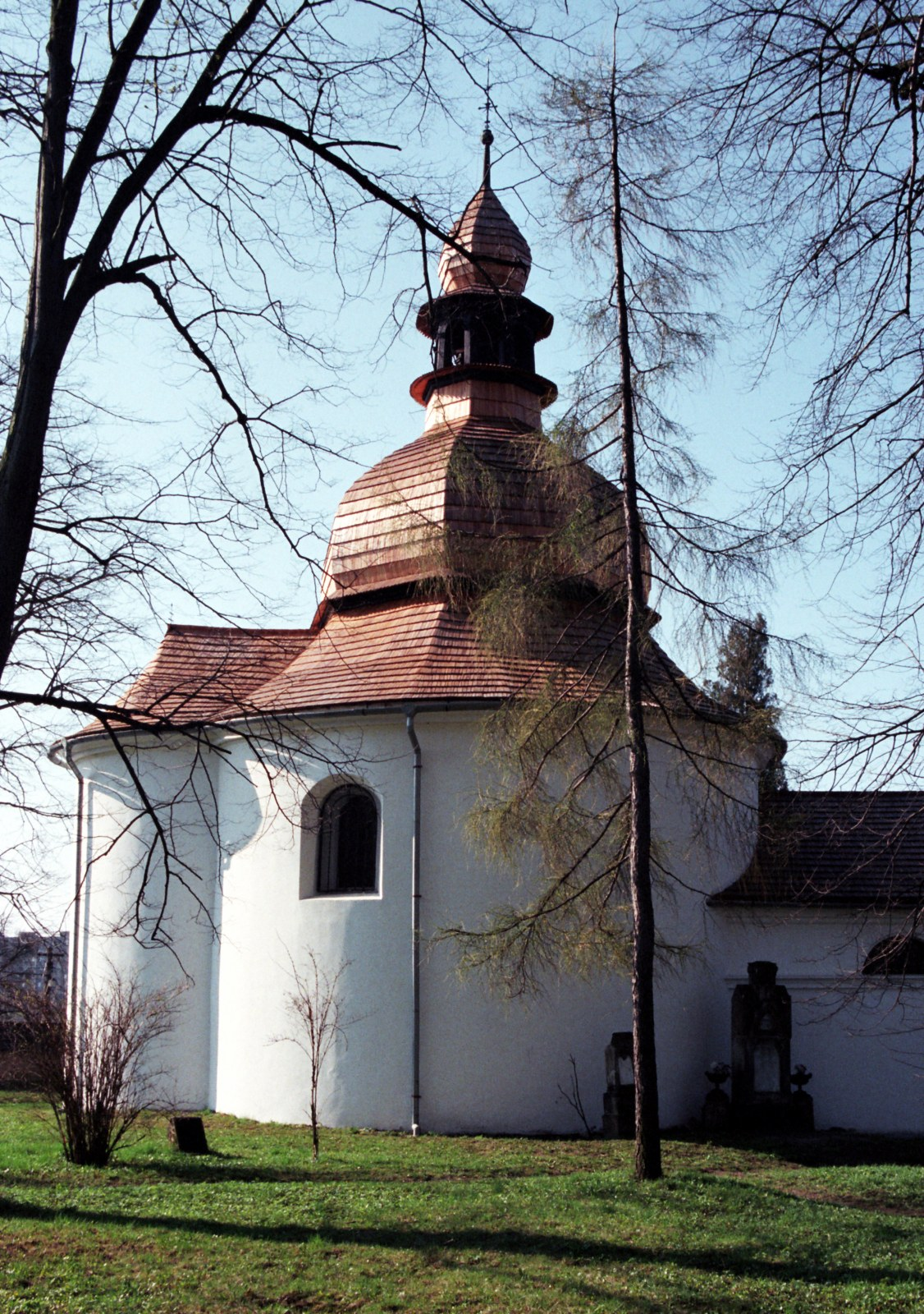 Romanesque church of Saint Catherine in Česká Třebová from the 13th century.